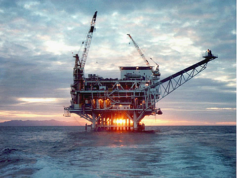 Photograph of Platform Gail, Sockeye Offshore Oil Field, near Santa Barbara, Southern California.